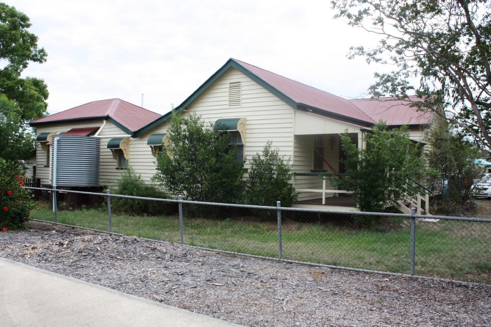 Forest Hill State School - former 1893 provisional school with 1898 kitchen extension to rear, from E (2014)